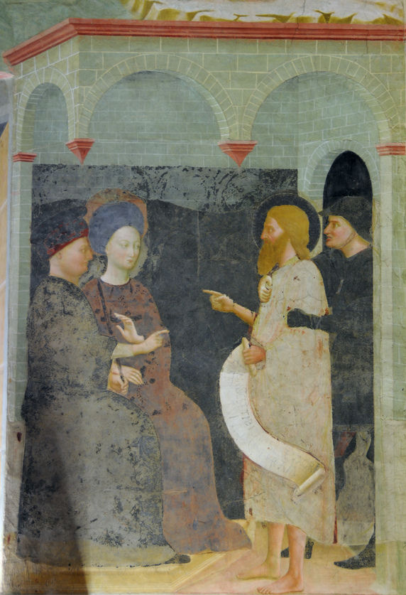 Fresco by Masolino da Panicale in the Baptistery of Castiglione, The Baptist scolds Herods